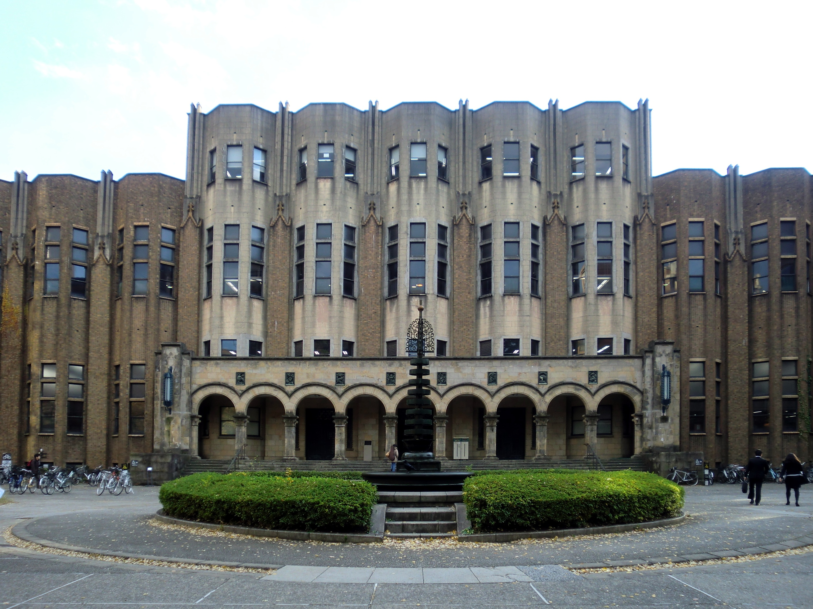 General Library, University of Tokyo, Bunkyo-ku, Tokyo. Taken in December 2012. Earlier in this year, two symbolic trees were replanted from the forecourt to elsewhere in the campus.